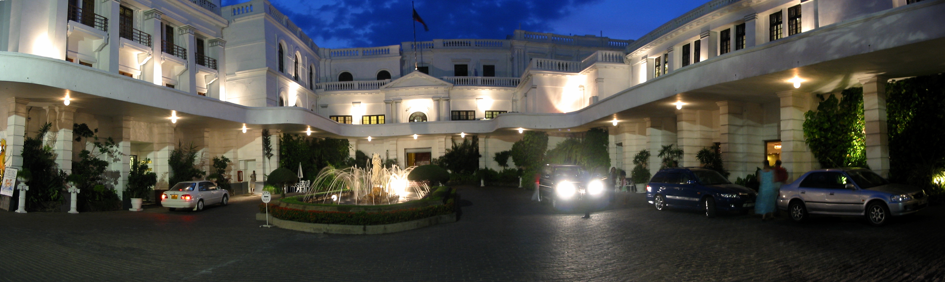 Sri Lanka, Mount Lavinia Hotel by night